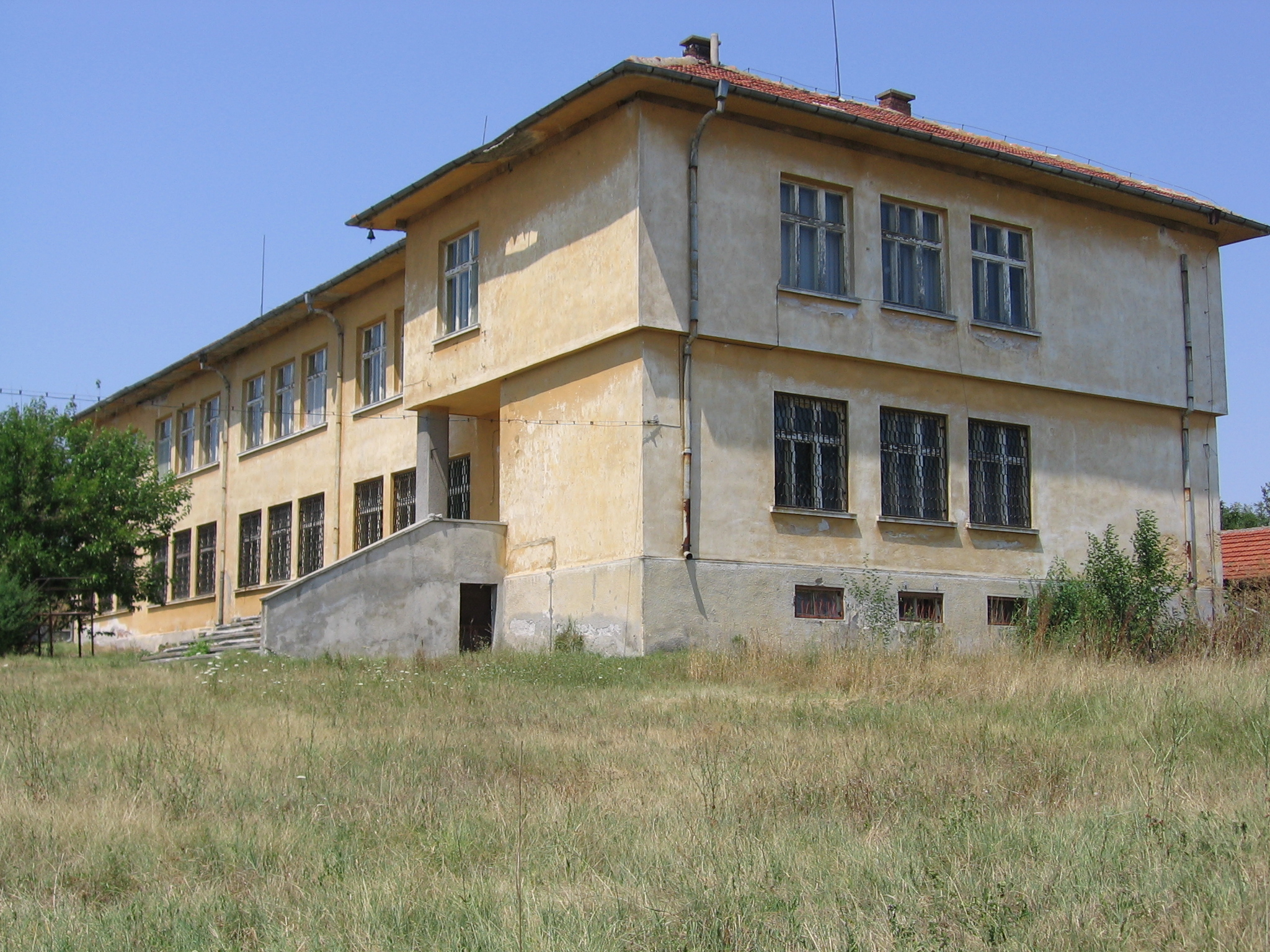 The school in village Drama, Bulgaria - nowadays the school is used as a base for the archaeological excavations near the village.